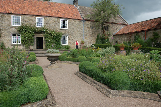 Pockerley Old Hall in Beamish Museum, County Durham, England. This is the view north across the ornamental garden to the south elevation of the house.